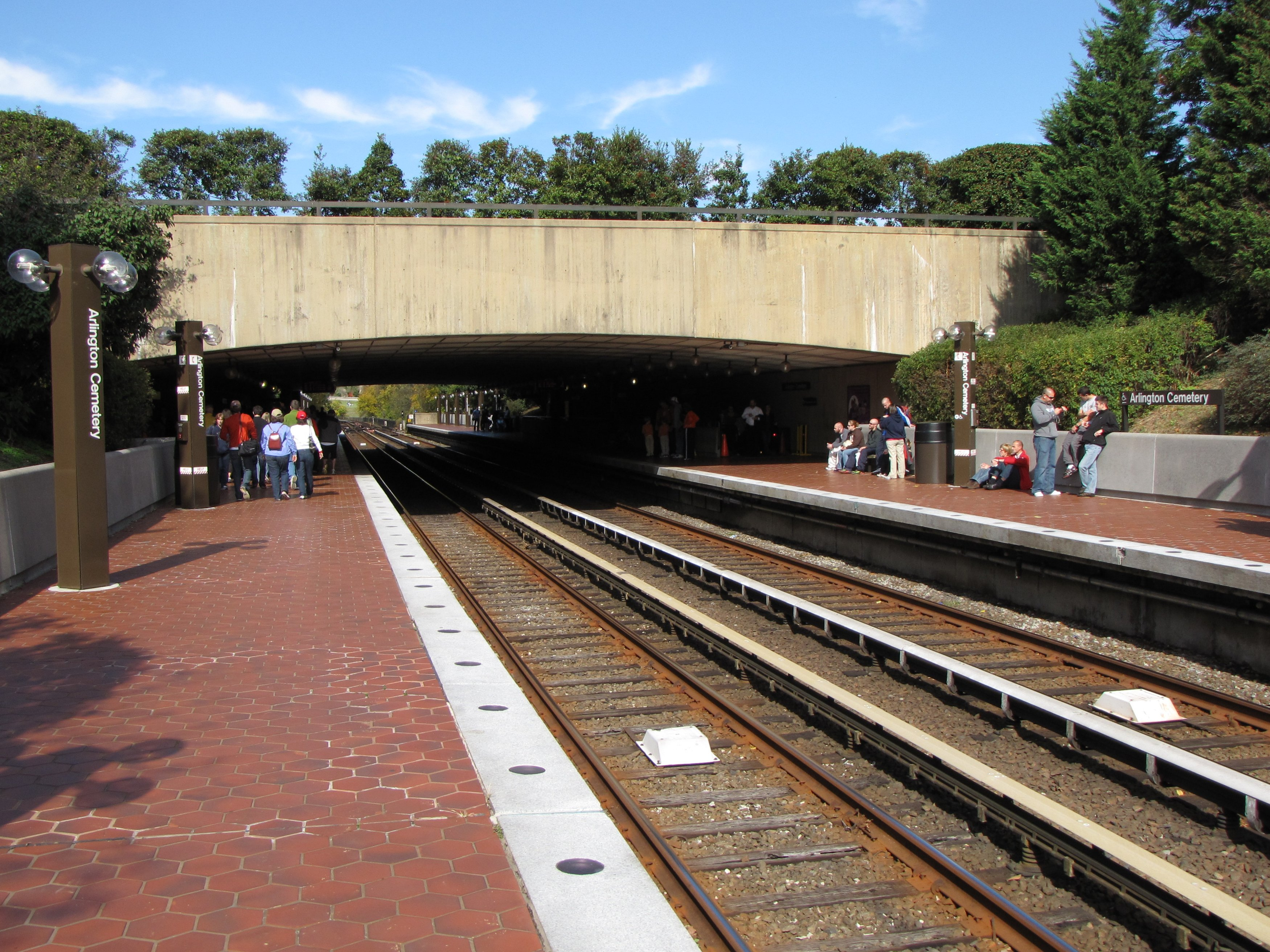 Arlington Cemetery station as seen from the outbound end of the Franconia-Springfield platform.